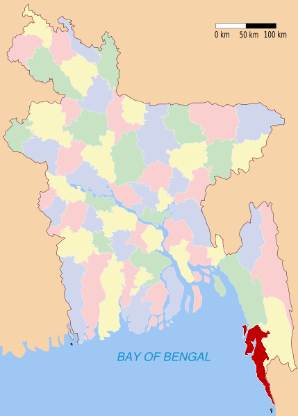 District locator map in red in Bangladesh